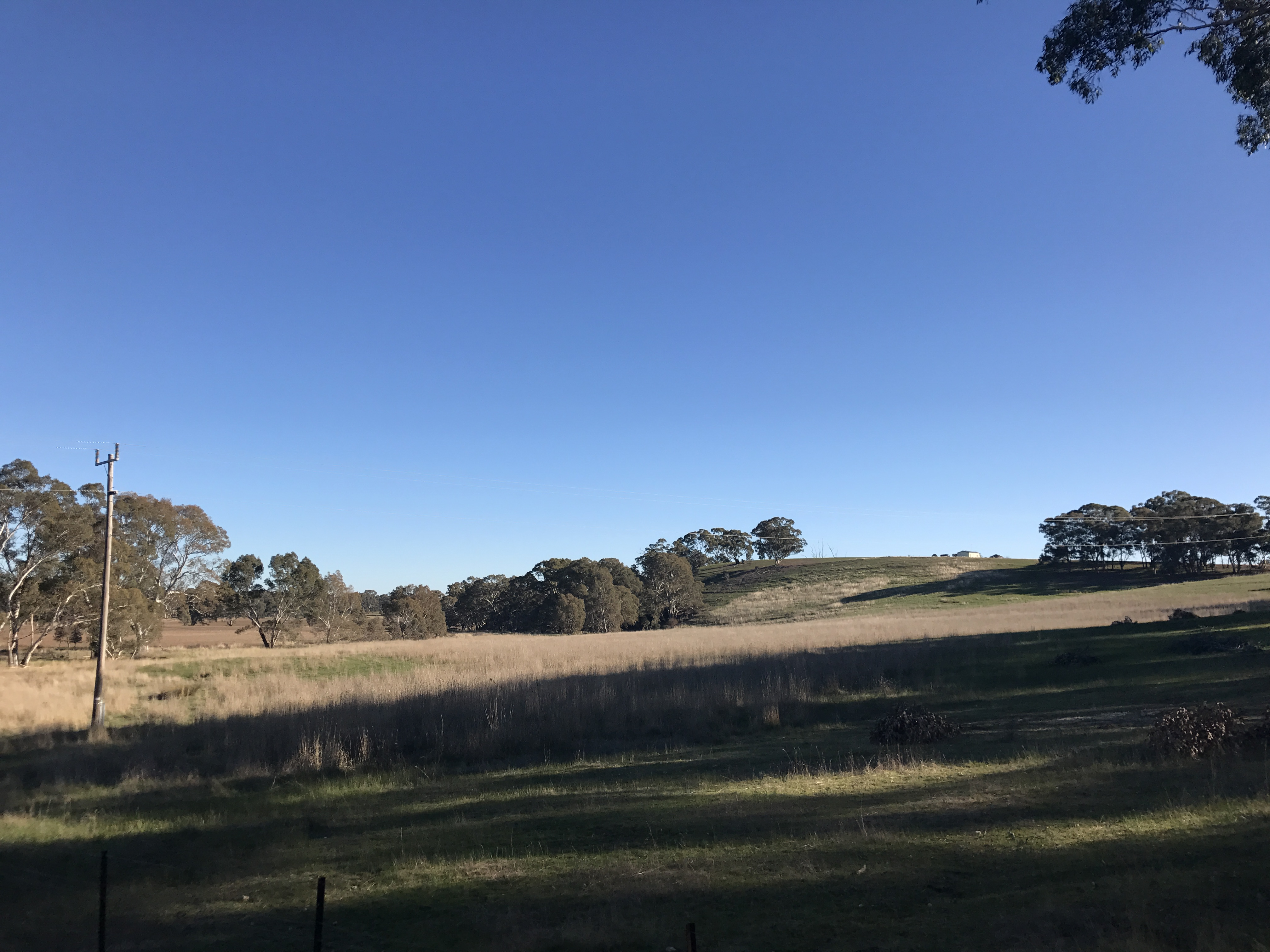 Photo of farm hills in Muckleford, taken from the roadside of Rilens Road during the winter.